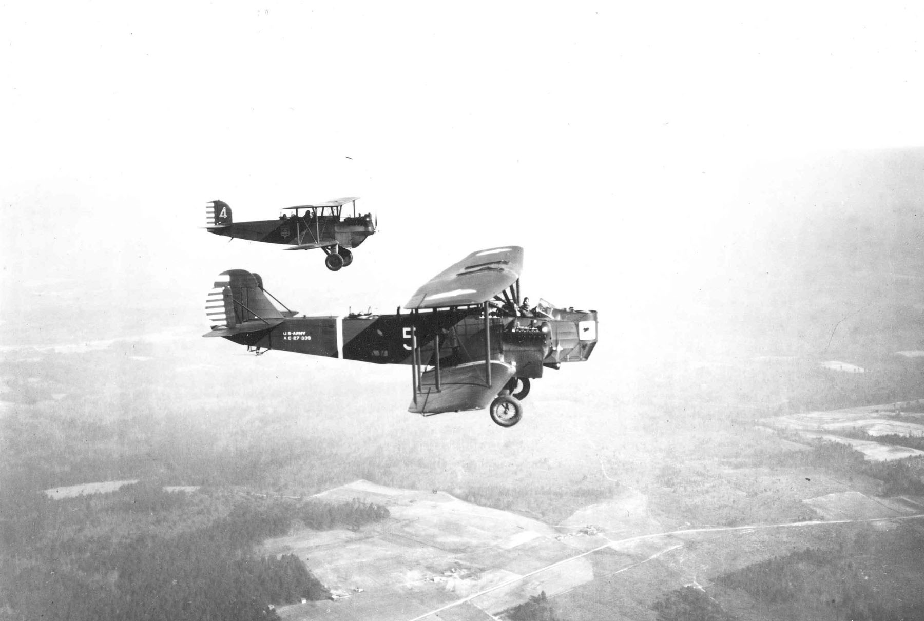 Keystone LB-5 bomber (serial number 27-339) in flight, with a Douglas O-2 observation plane behind it.